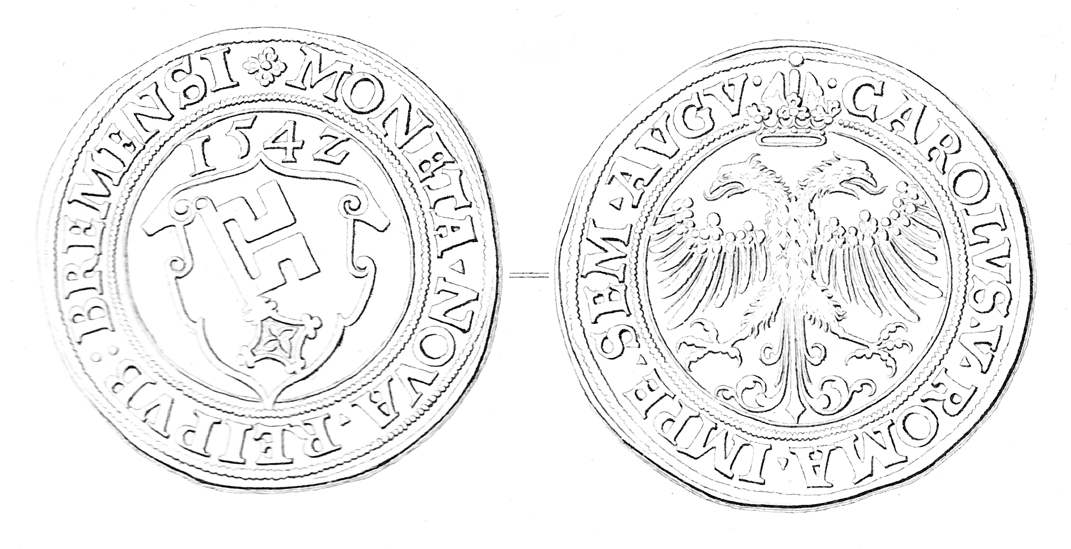 Taler, Bremen, 1542